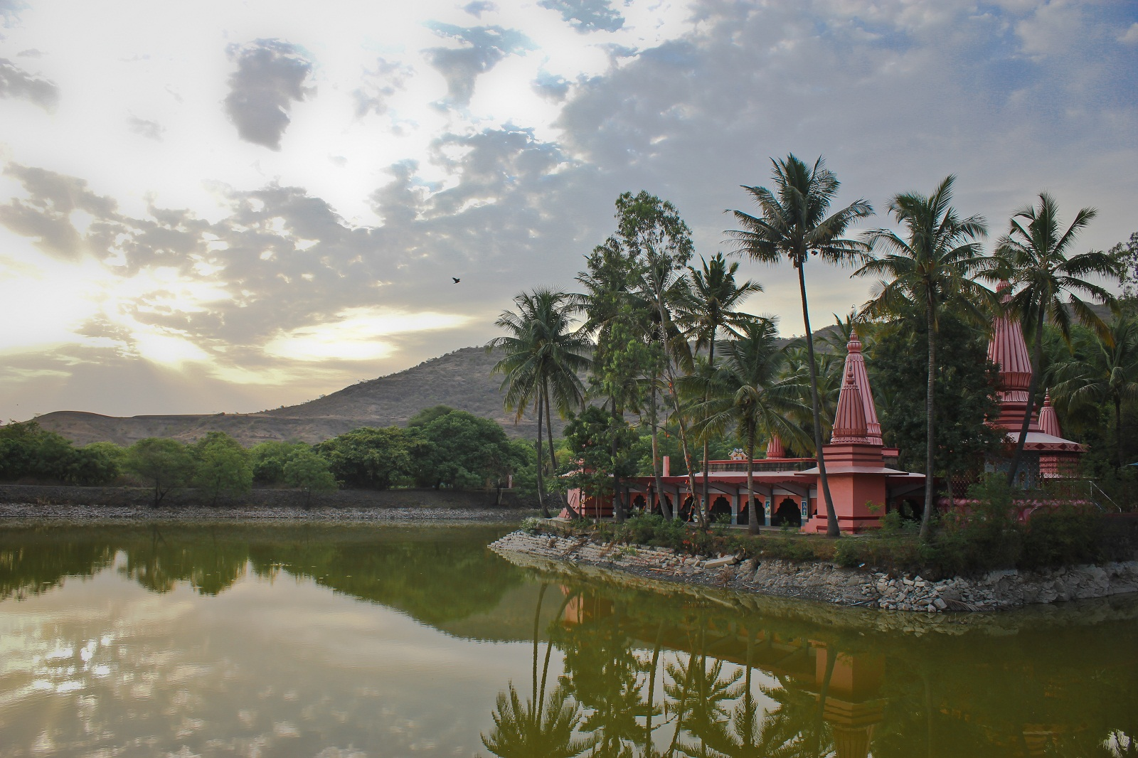 clicked near Pune